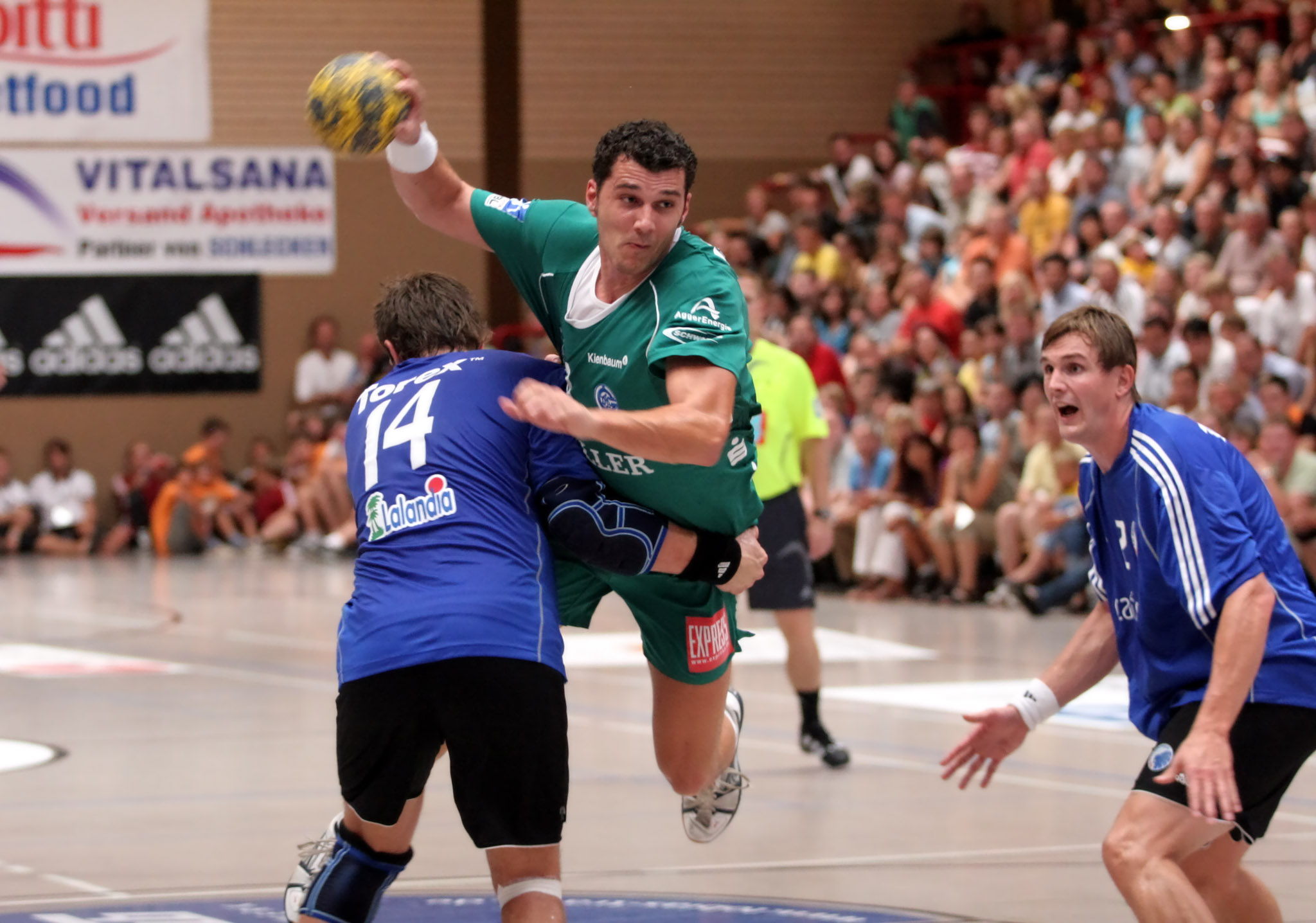 Adrian Wagner, handball player from VfL Gummersbach (Germany), during the Schlecker Cup 2008 in Ehingen (Germany)